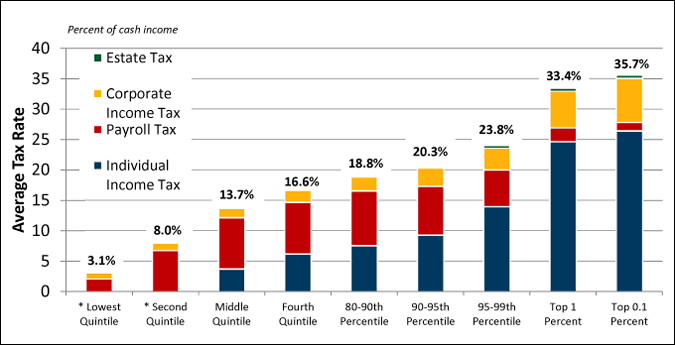 US federal effective tax rates by income percentile and component. Chart by PGPF based on Tax Policy Center calculations in July 2013 for 2014 under current law. Chart: Granted permission for use by PGPF under the Creative Commons Attribution License v.3.0